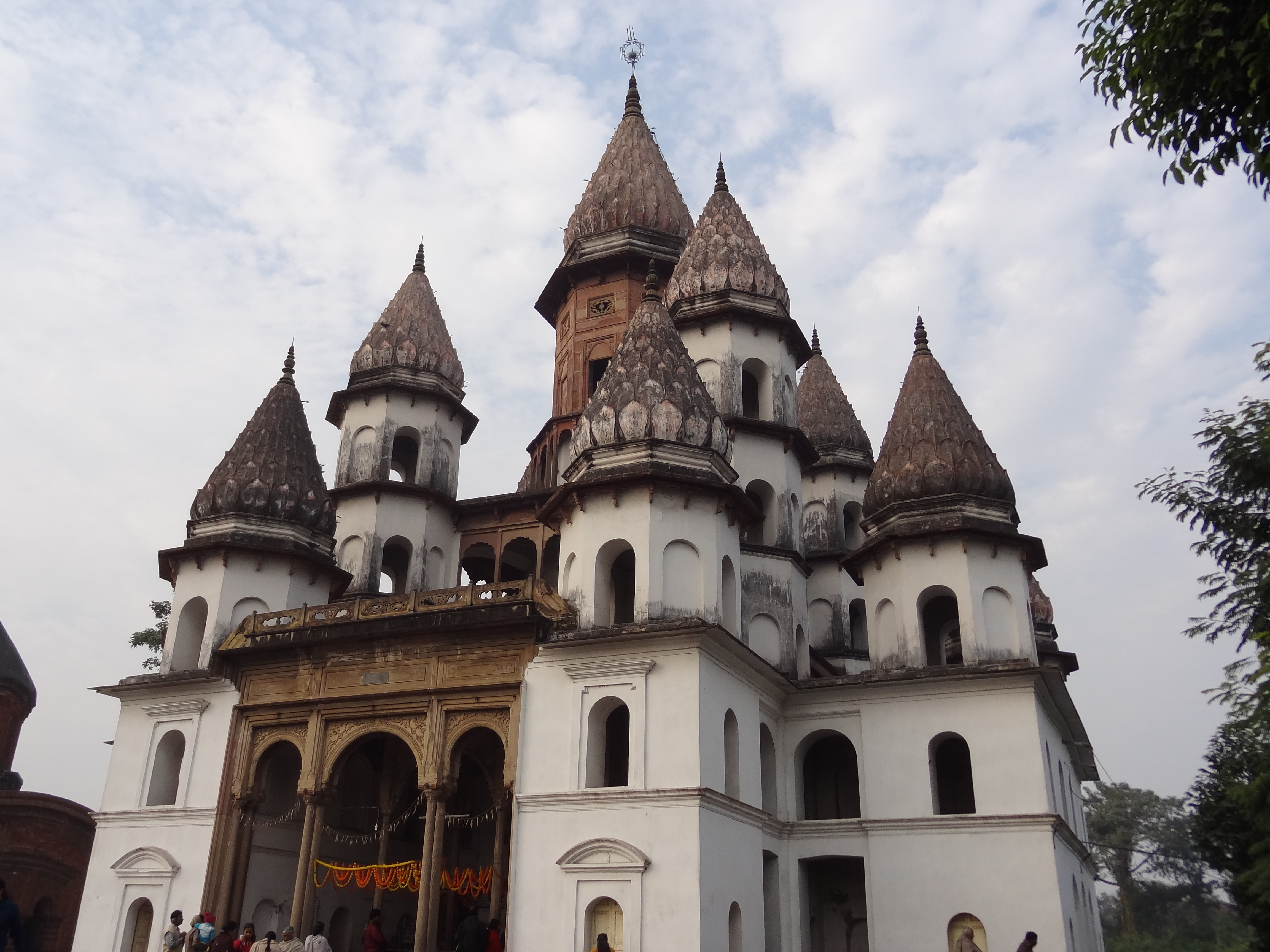 Hangseshwari Temple, Bansberia